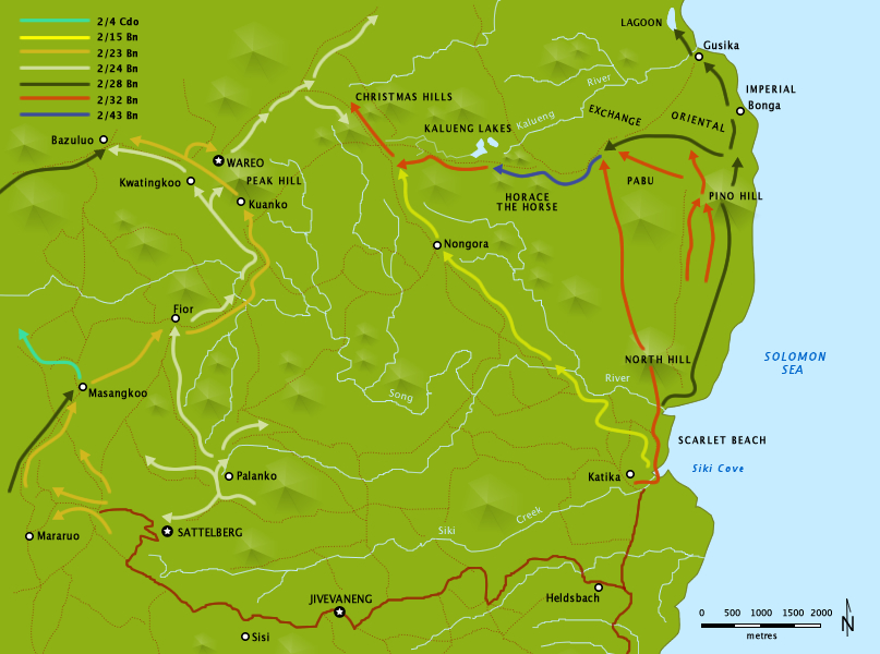 Map of part of Huon Peninsula, Papua New Guinea, showing details of Battle of Wareo